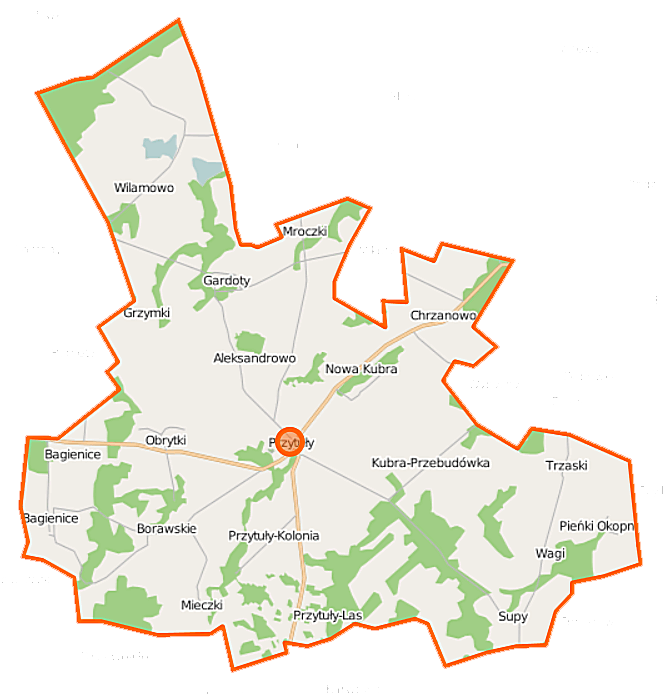 Map of Gmina Przytuły, Poland This map of Przytuły (gmina) was created from OpenStreetMap project data, collected by the community. This map may be incomplete, and may contain errors. Don't rely solely on it for navigation. Border coordinates53.440822.2305←↕→22.411853.3276